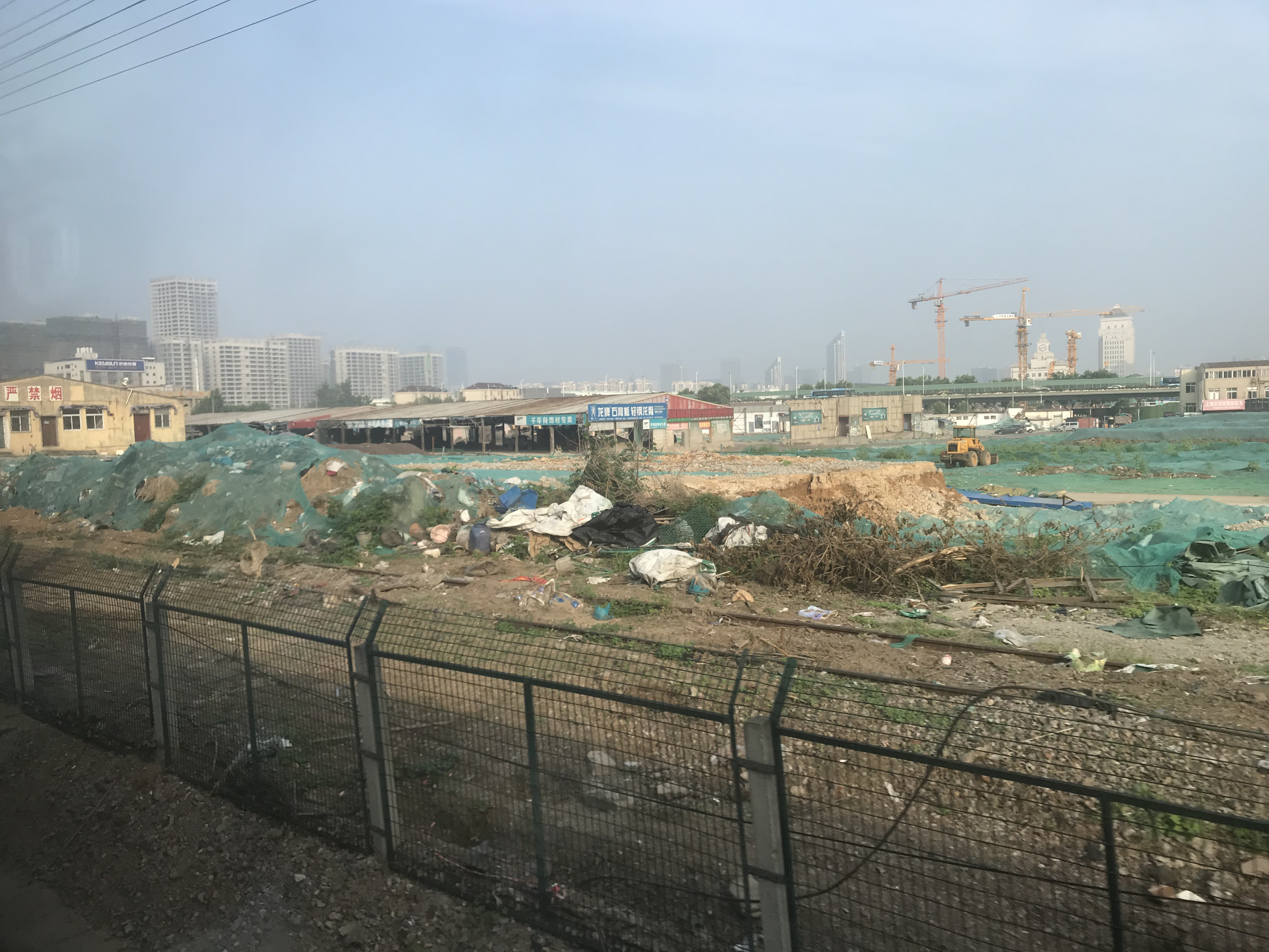 201906 Abolished Andemen Freight Yard of Zhonghuamen Station